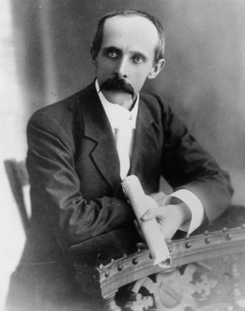 Leslie Gordon Corrie (1859-1918). Mayor of Brisbane from 1902-1903. Leslie Gordon Corrie was born in Hobart in 1859. He was articled to a Hobart architect and worked as an architect in Launceston until 1886. After moving to Brisbane and forming a Partnership with his former Tasmanian employer, Henry Hunter, he practiced as Hunter and Corrie. Later, in 1898, he joined with another leading architect, G. H. M. Addison. Corrie was one of the founders of the Queensland Institute of Architects in 1887, and served as Vice-President of that body in 1901 .At the elections of 1902, Corrie was persuaded to stand for the Brisbane City Council and was elected. He was elected Mayor of Brisbane and held this position during 1902 and 1903. He died in 1918.